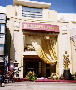 Outside the Kodak theater before the 75th Academy Awards in 2003. Photo taken by Googie Man.